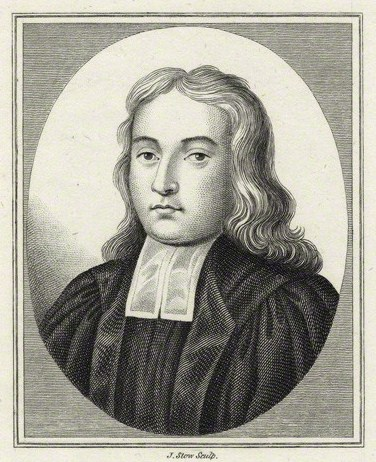 Portrait of William Pemble (c.1591–1623), English theologian and author.